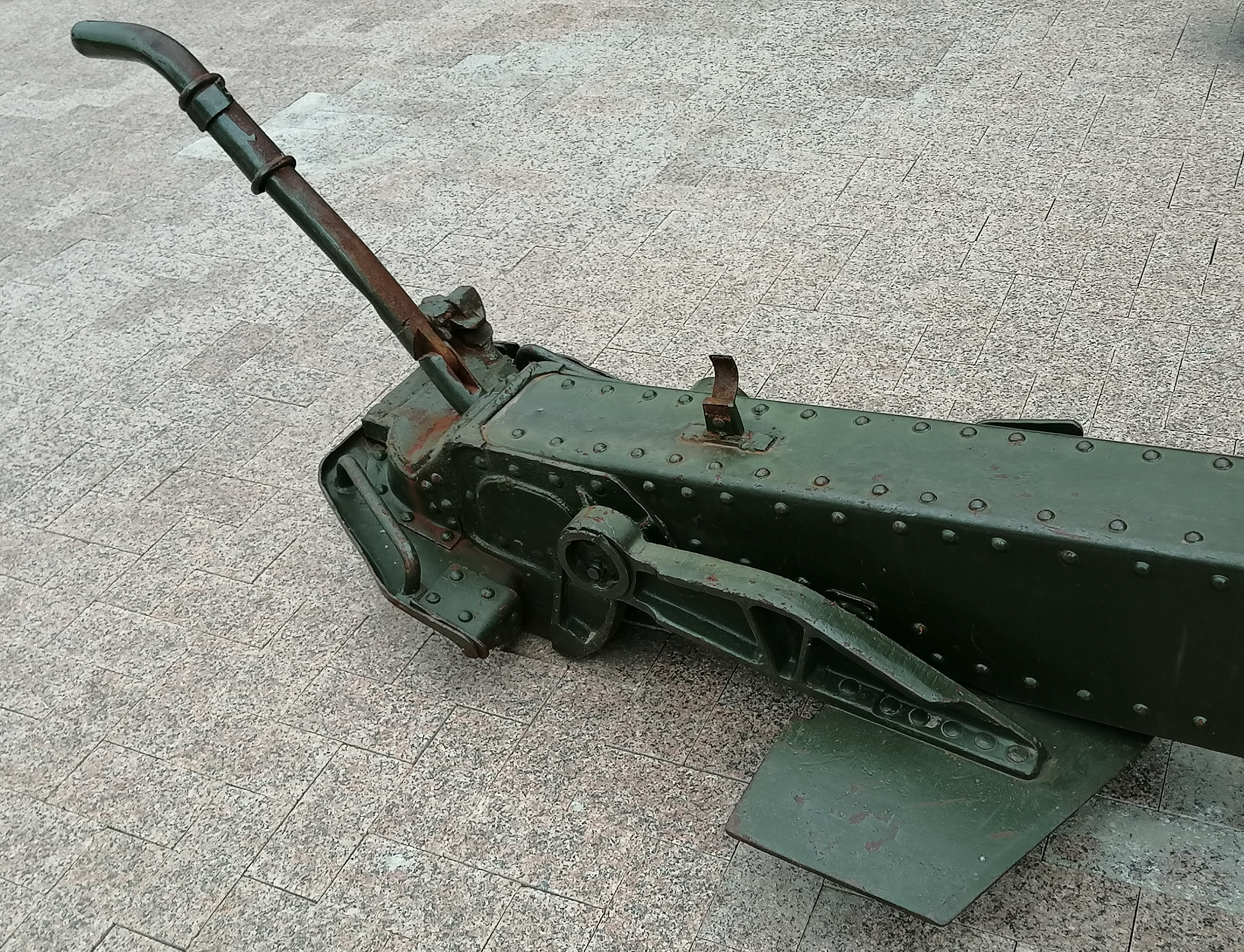 Opener 122 mm howitzer model 1938 M-30. The city of Ukhta is a memorial to the soldiers who died in WWII.